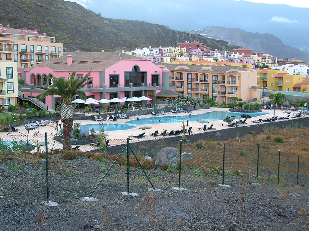 Different buildings of apartment hotel "Las Olas" in Los Cancajos, LaPalma